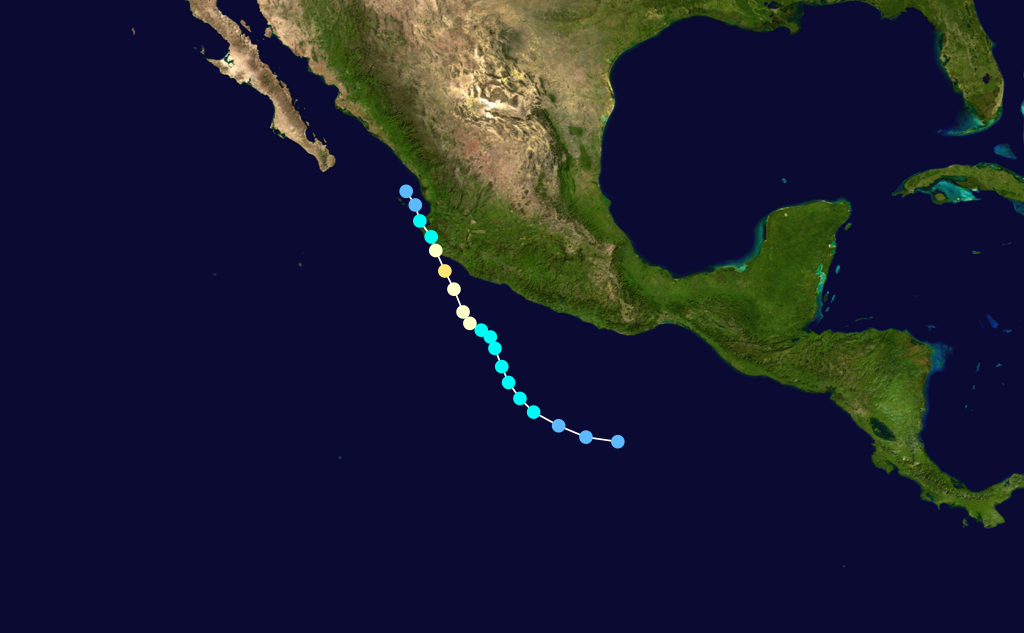 Hurricane Eugene (1987) track. Uses the color scheme from the Saffir-Simpson Hurricane Scale.